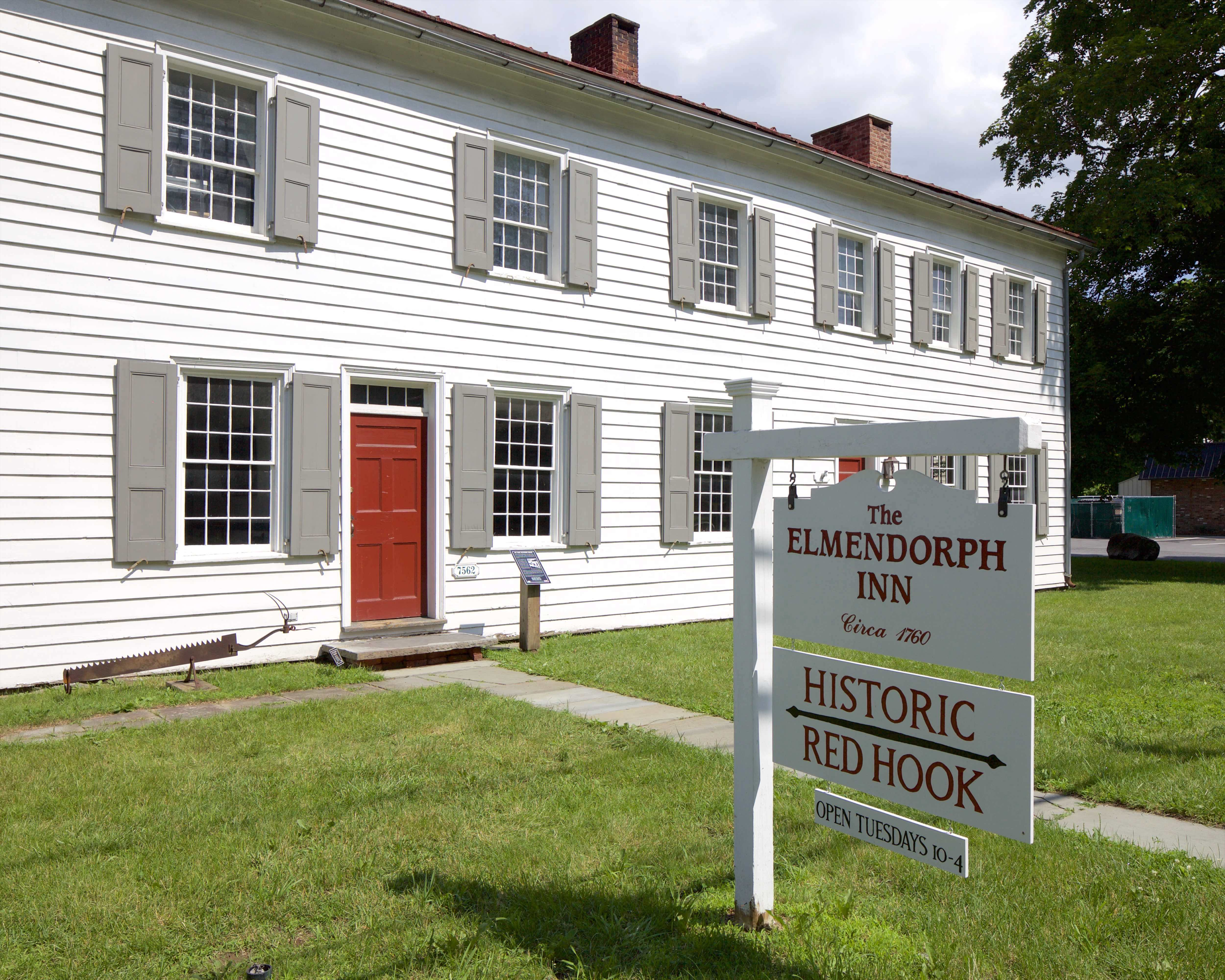 Photo showing front exterior, lawn and sign of the Elmendorph Inn.